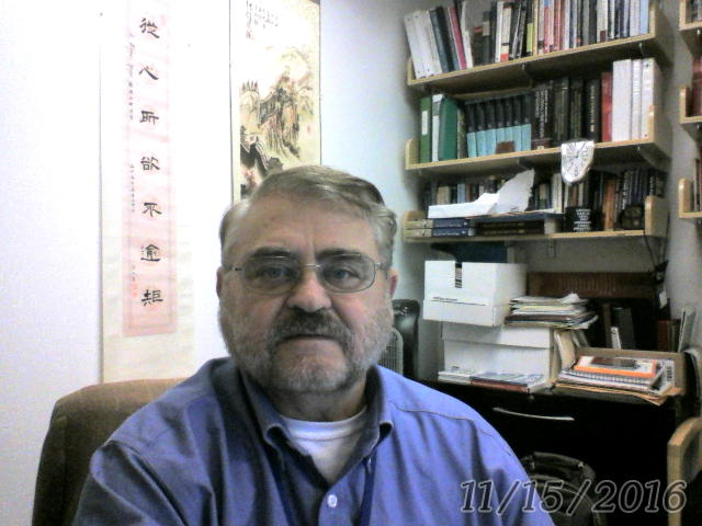 Dr. Mike Spector sitting at his office in Learning Technologies at University of North Texas